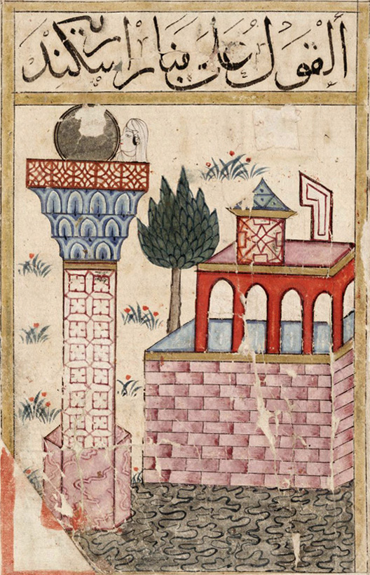 Rectified/ cropped/ contrast-corrected version of File:Book_of_Wonders_folio_36a.jpg. The lighthouse of Alexandria. Illustration of a tale. Page from a manuscript known as Kitab al-bulhan or "Book of Wonders" held at the Bodelian Library. Shelfmark: MS. Bodl. Or. 133